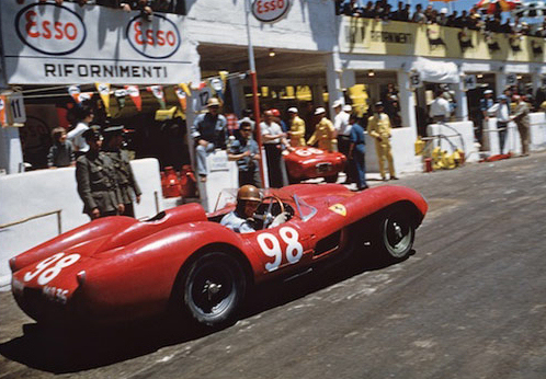 Peter Collins in the 1957 Ferrari 250 Testa Rossa s/n 0704TR at Targa Florio on 11 May 1958. Phil Hill was also a driver of this car at this event, but Collins usually had a bronzecolored helmet. They ended in 4th place.[1]